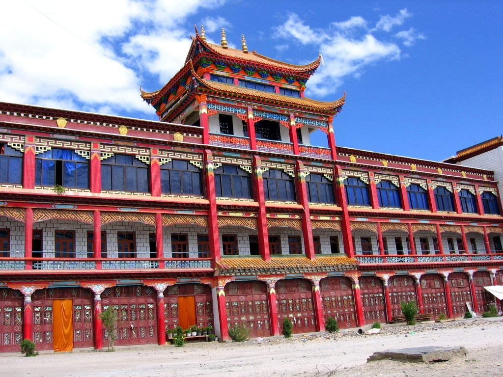 Kandze Gompa, Ganzi Si or Ganzi monastery. Home of more than 500 Gelupka monks. Was built on 17th century.